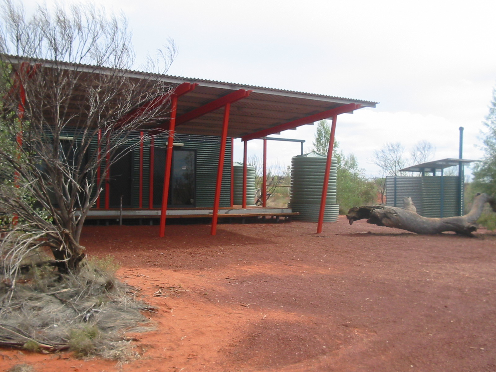 Ilkurlka Roadhouse, photo taken by gazjo on 2 Jan 2006